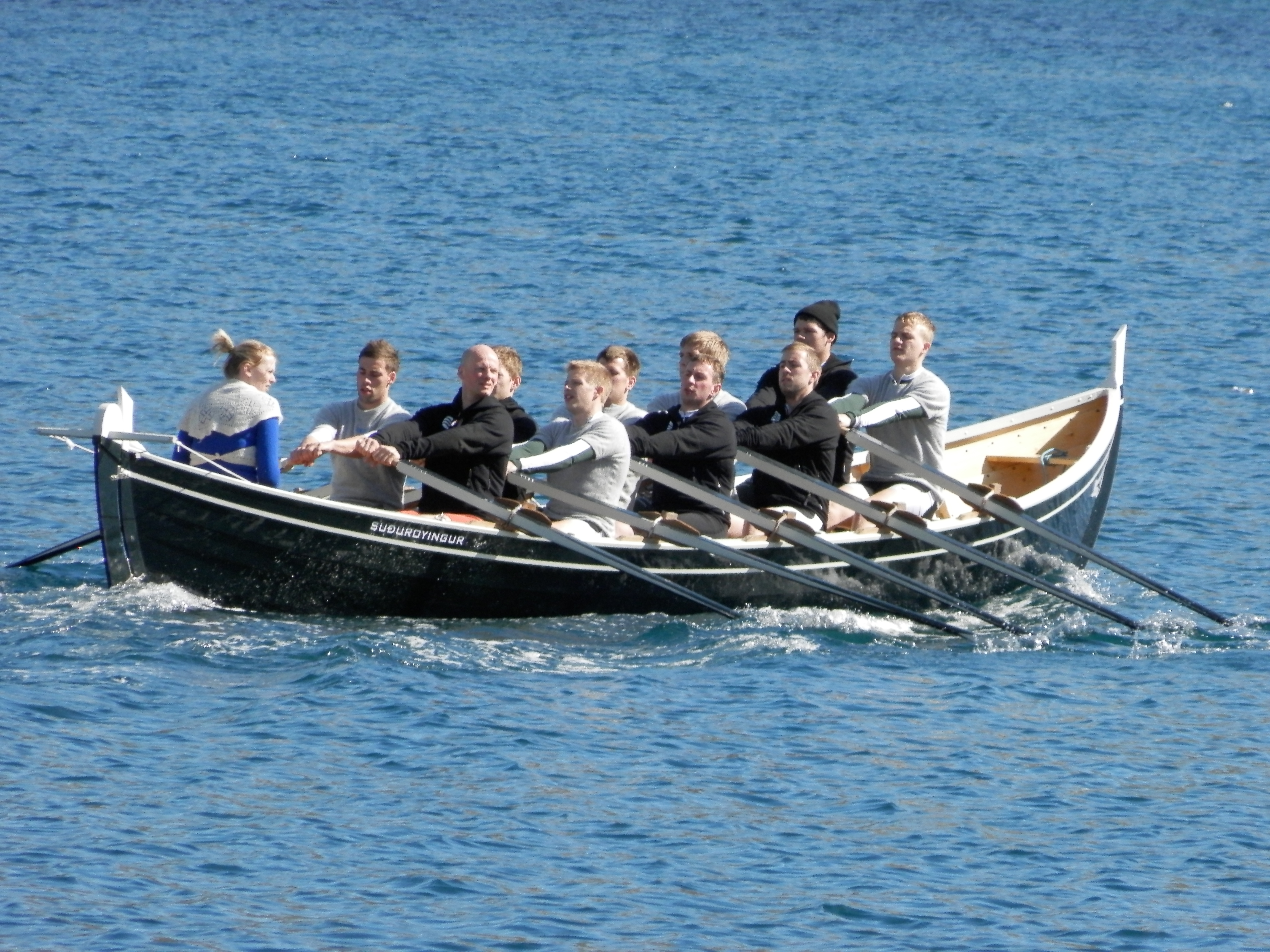 Suðuroyingur is a Faroese wooden rowboat from the island Suðuroy. It is named after the island (it means: comes from Suðuroy). The boat belongs to the new rowing club Suðuroyar Kappróðrarfelag, which was founded in 2011. Here they are on their way out to the starting point for the Fjarðastevna Cup 2012 in Vestmanna. Føroyskt: Suðuroyingur er eitt 10-mannafar hjá Suðuroyar Kappróðrarfelag. Sámal Hansen smíðaði henda bátin í 2011-2012. Hetta er fyrsta árið, at báturin og felagið luttekur í føroyskum kappróðri. Suðuroyingur varð nummar tvey á Norðoyastevnu og á Vestanstevnu, nummar trý á Sundalagsstevnu og nummar eitt á Jóansøku. Á Fjarðastevnu gjørdist hann nummar tvey og á Vestanstevnu gjørdist hann nummar trý. Flestu róðrarnar hava verið sera tættir, serliga millum tríggjar teir fremstu bátarnar: Klaksvíking, Suðuroying og Vestmenning, við einum sekundi ella brotpartar av einum sekundi ímillum teir.